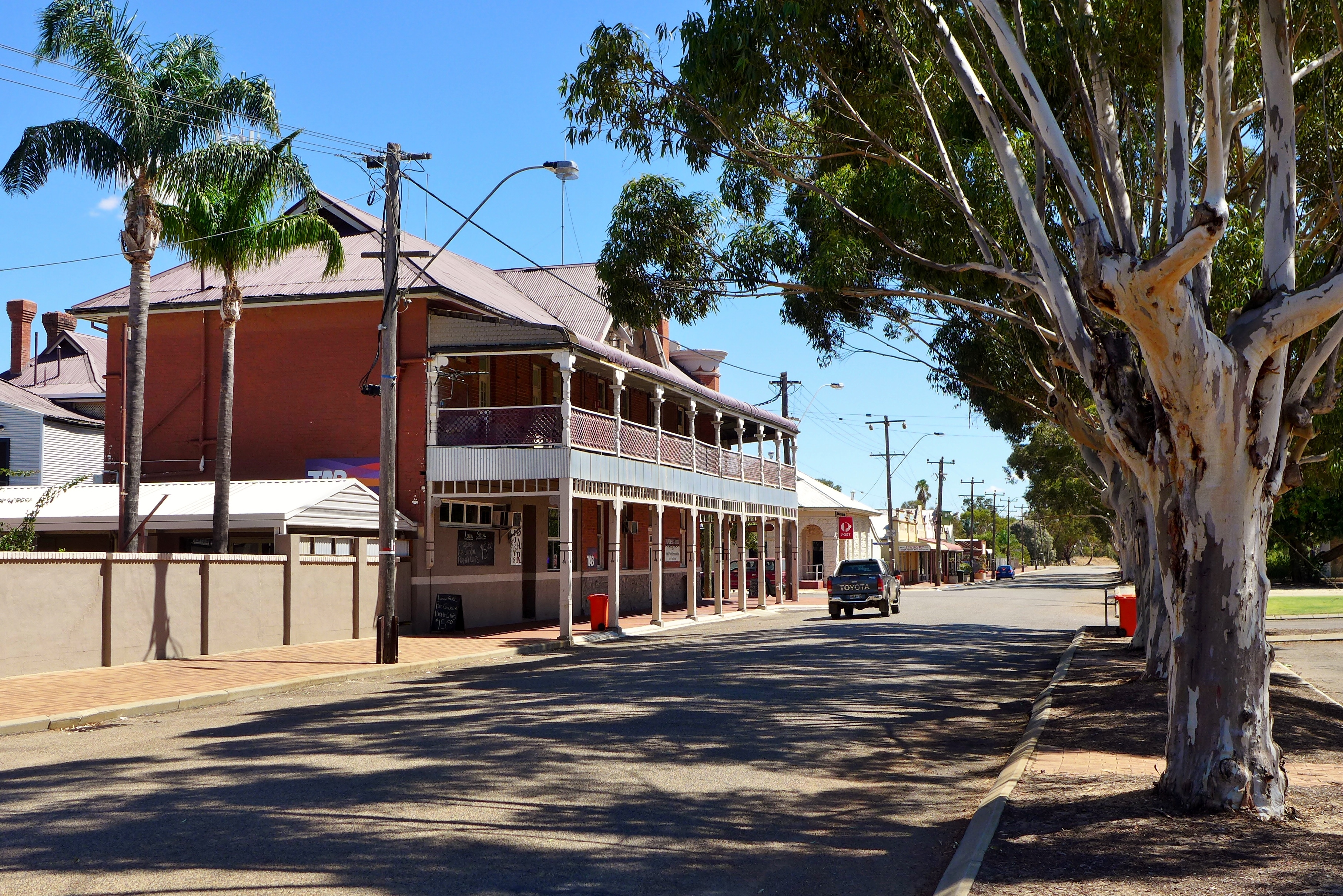 The Drovers Inn Hotel / Motel, 1 Dandaragan Street, Moora, Western Australia.